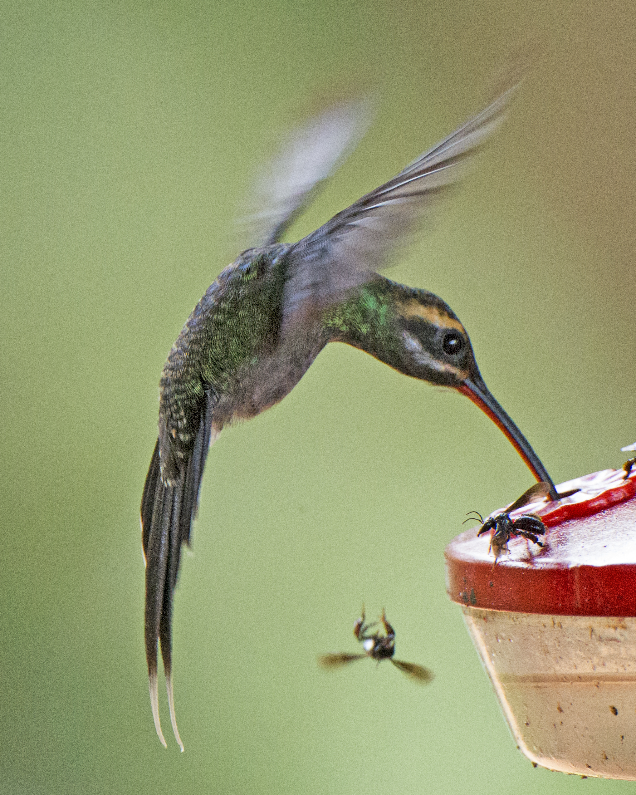 White-whiskered hermit Phaethornis yaruqui Milpe, Ecuador 29th. July 2014 CF2P9013